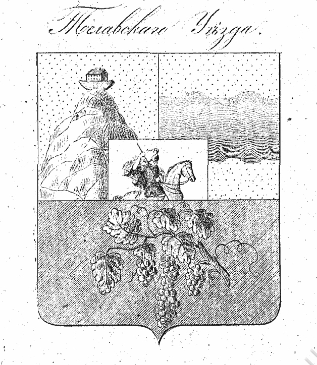 Coat of Arms of Telavi Uyezd (1843), Russian Empire